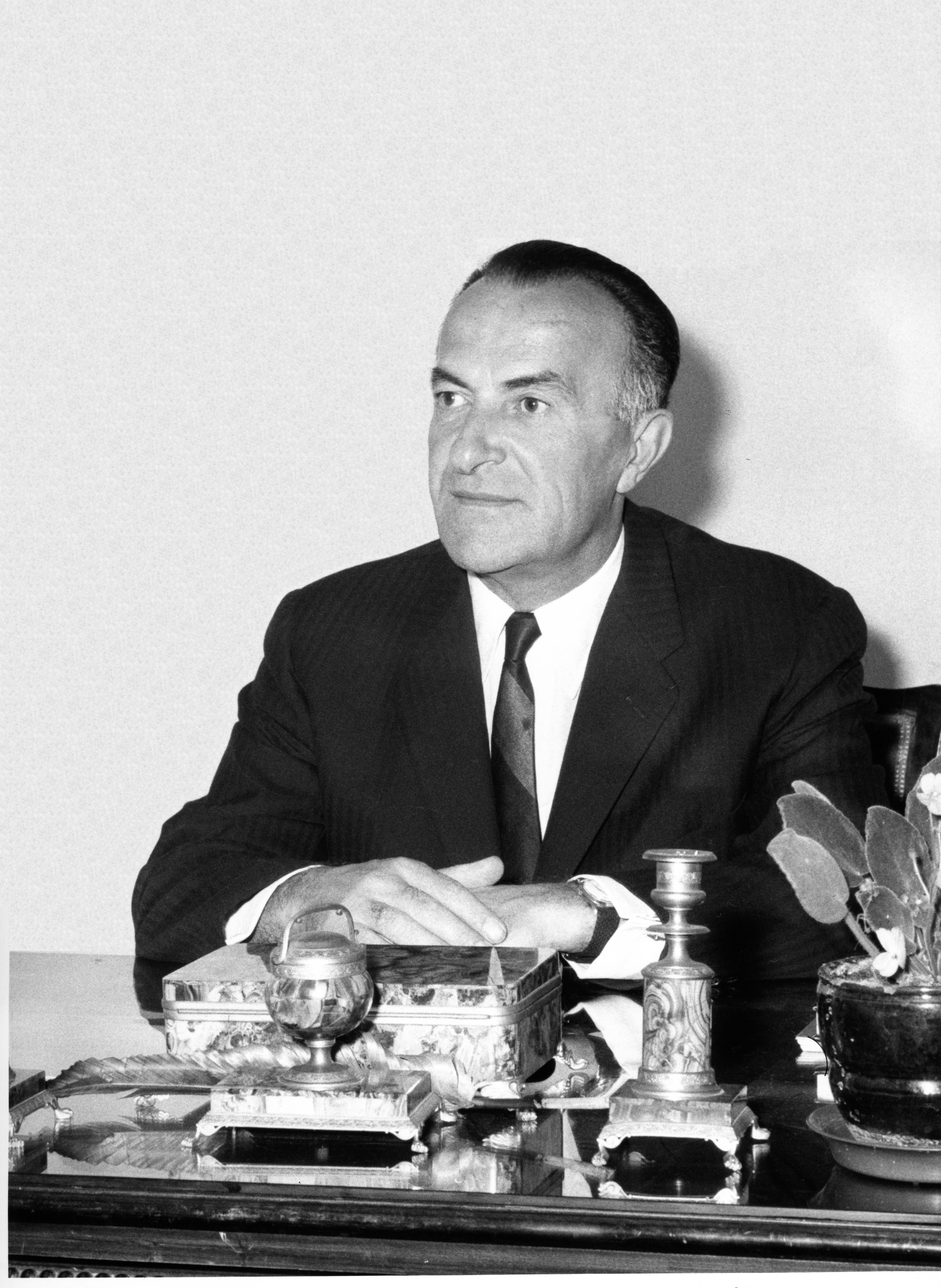 Picture of Vladimir Petrović in office.